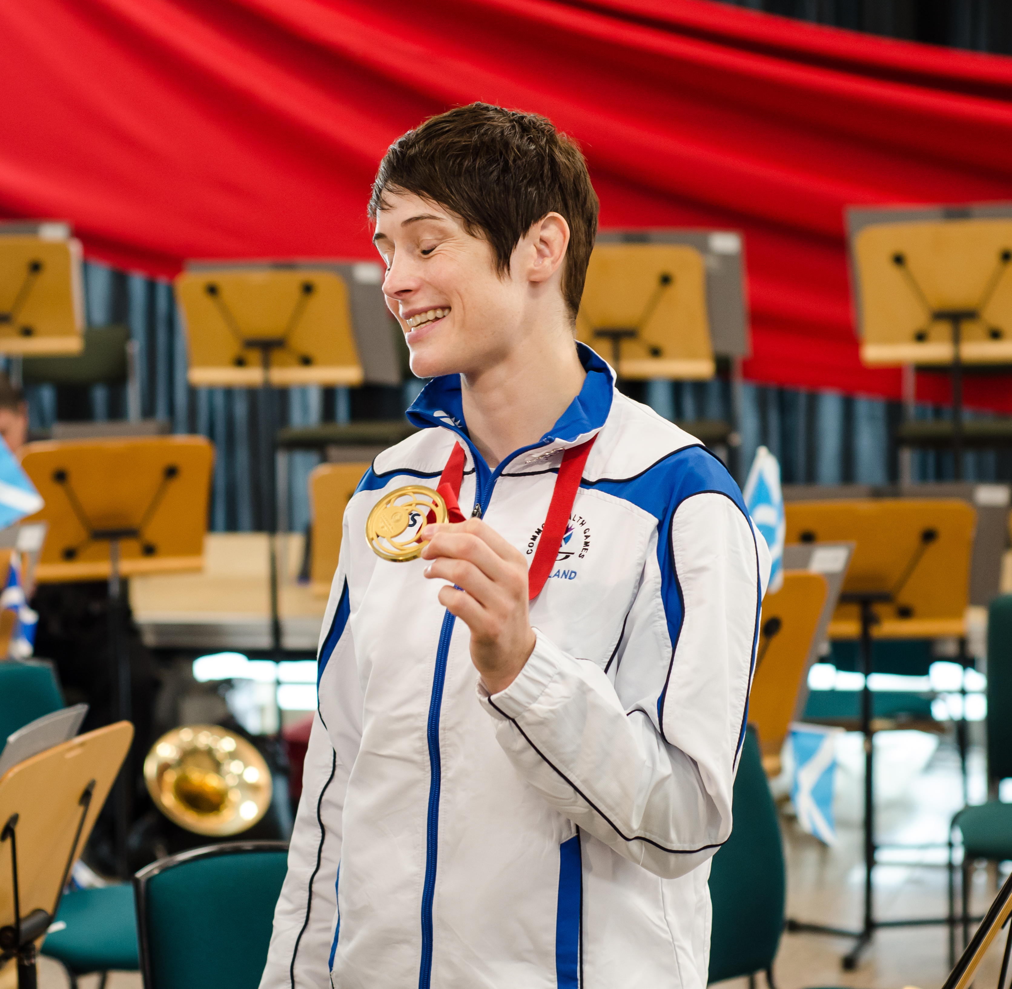 GLASGOW AIRPORT ORCHESTRAL CONCERT TO CELEBRATE SCOTLAND’S SPORTING SUCCESS Over 100 musicians from the Royal Scottish National Orchestra (RSNO) and RSNO Chorus performed live at Glasgow Airport to celebrate the conclusion of the XX Commonwealth Games. The performance, which forms part of Glasgow Airport’s Best of Scotland campaign, featured music with a sporting theme to entertain departing athletes and sporting fans. It included performances of classic theme tunes such as Chariots of Fire and Bill Conti’s chart-topping Rocky. Taken for .uk